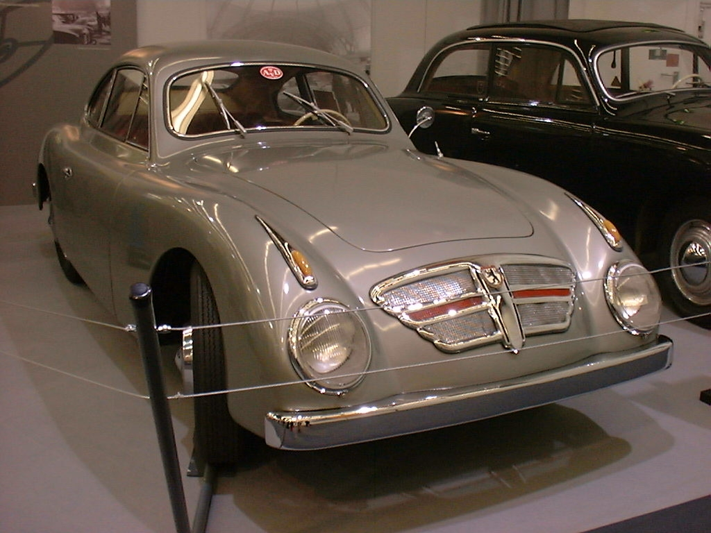 Goliath GP700 Sport (1951-53)